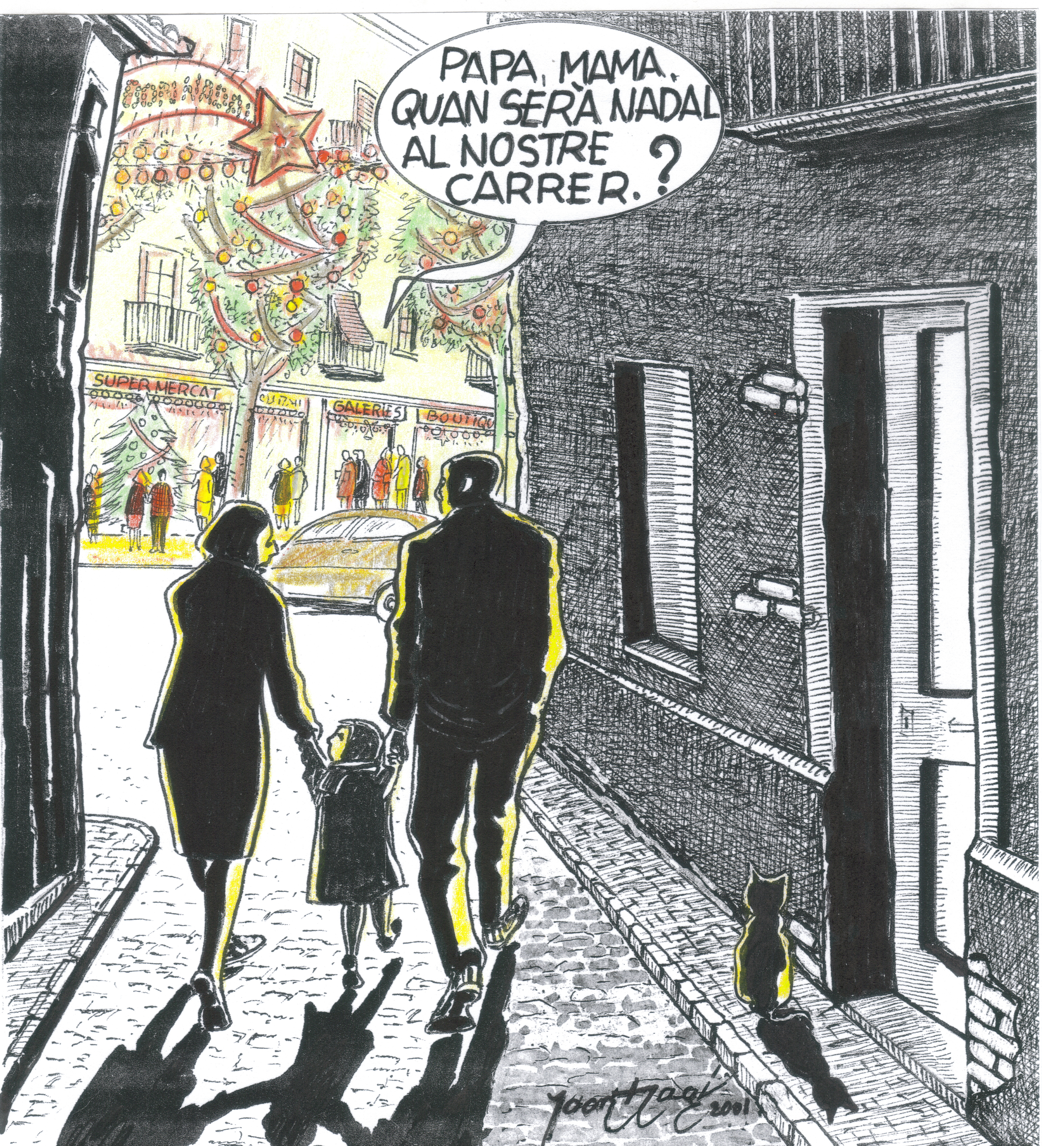 Christmas by Joan Magí